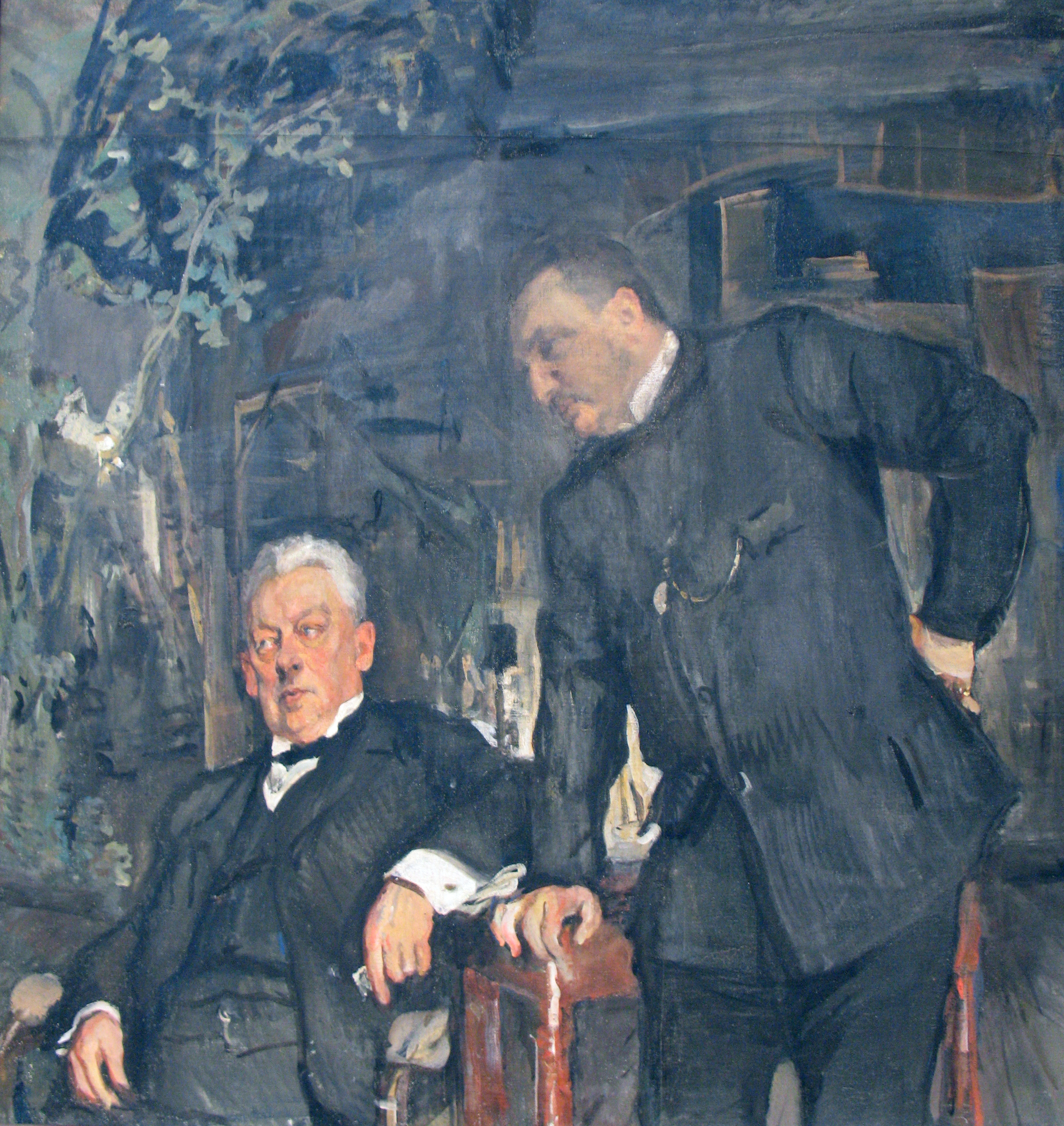 Portraits of actors A.P. Lensky and A.I. Yuzhin